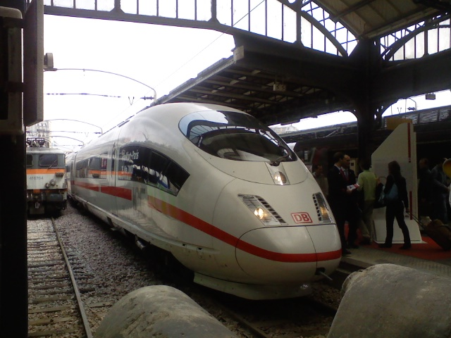 ICE 3 in Paris Est Station (New French and German High Speed Train connexion)